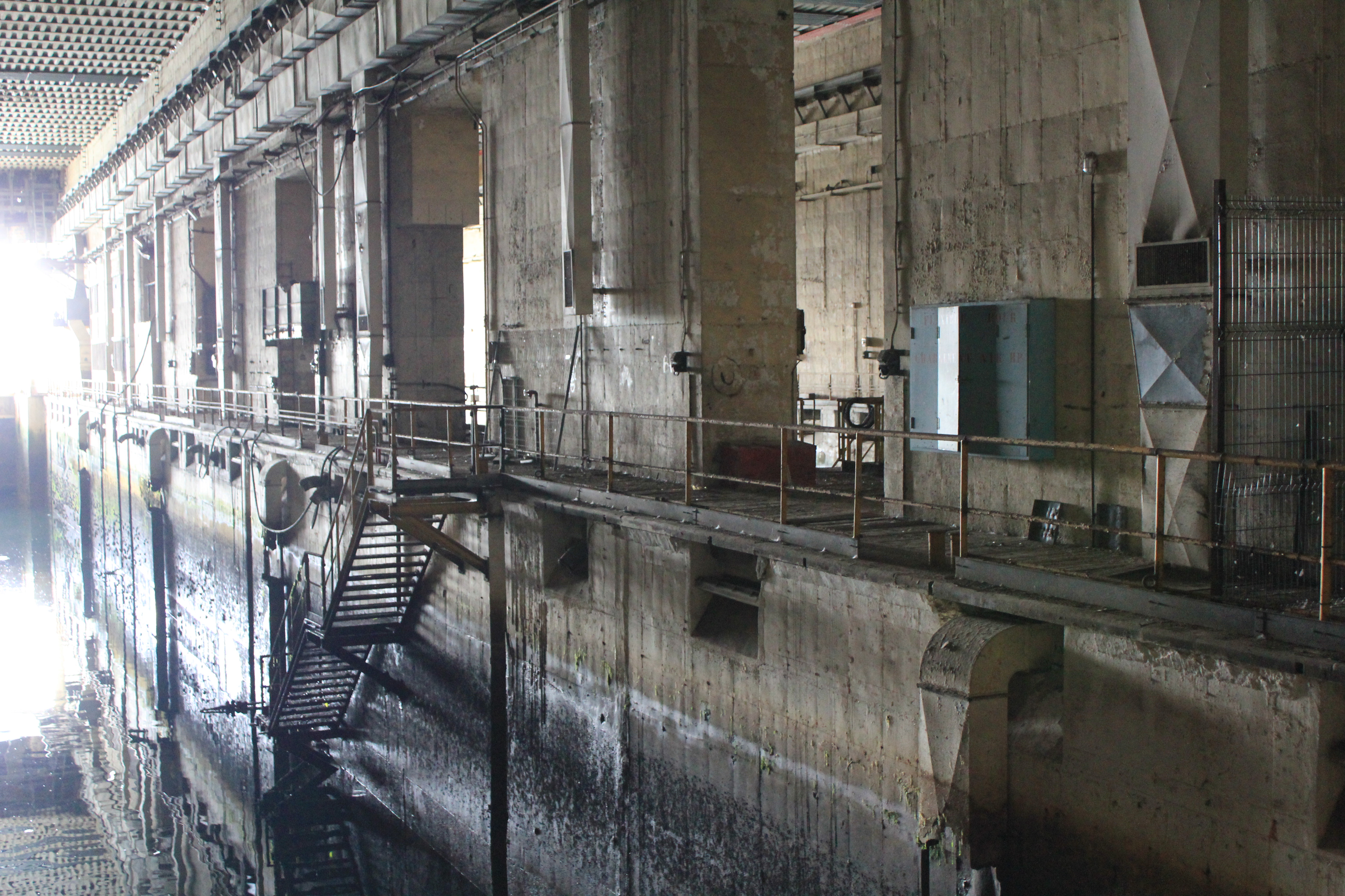 Keroman III - One of the seven submarine pens.